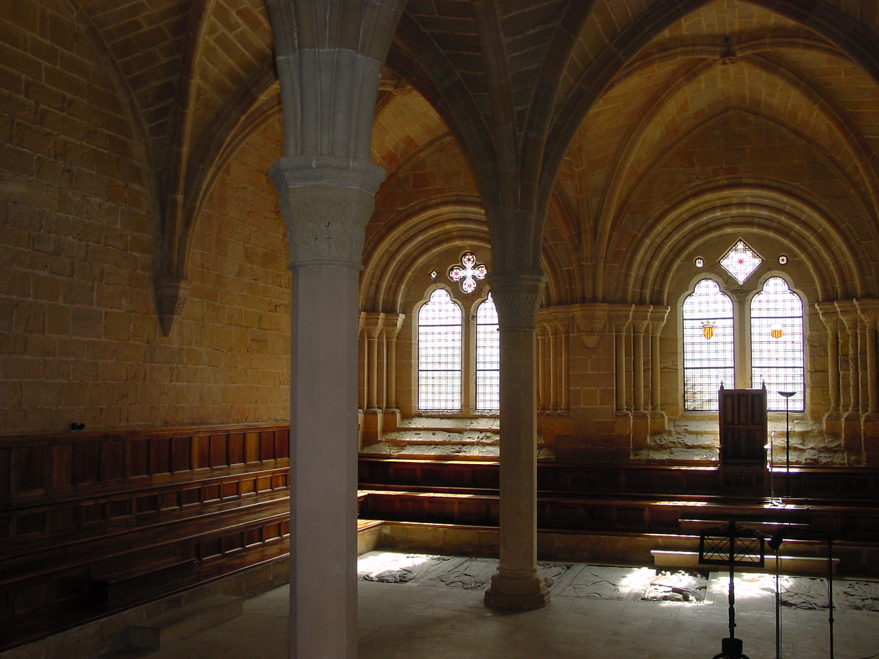 Sala capitular del claustro del monasterio de Poblet. Chapter house of the cloister in the monastery of Poblet.